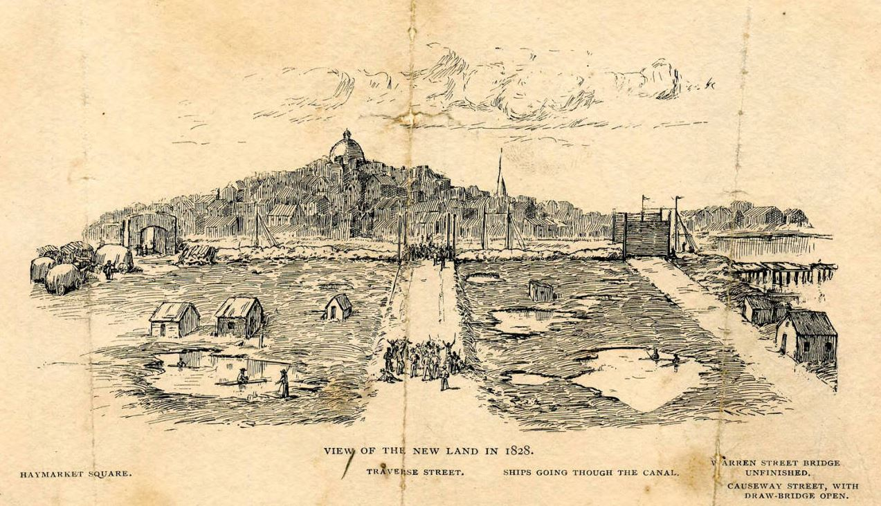 1895 drawing of land filled in the early 1800s, including Haymarket Square, Causeway Street, and the Bulfinch Triangle